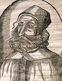 Greek physician Claudius Galenus of Pergamum aka Galen (131-201)